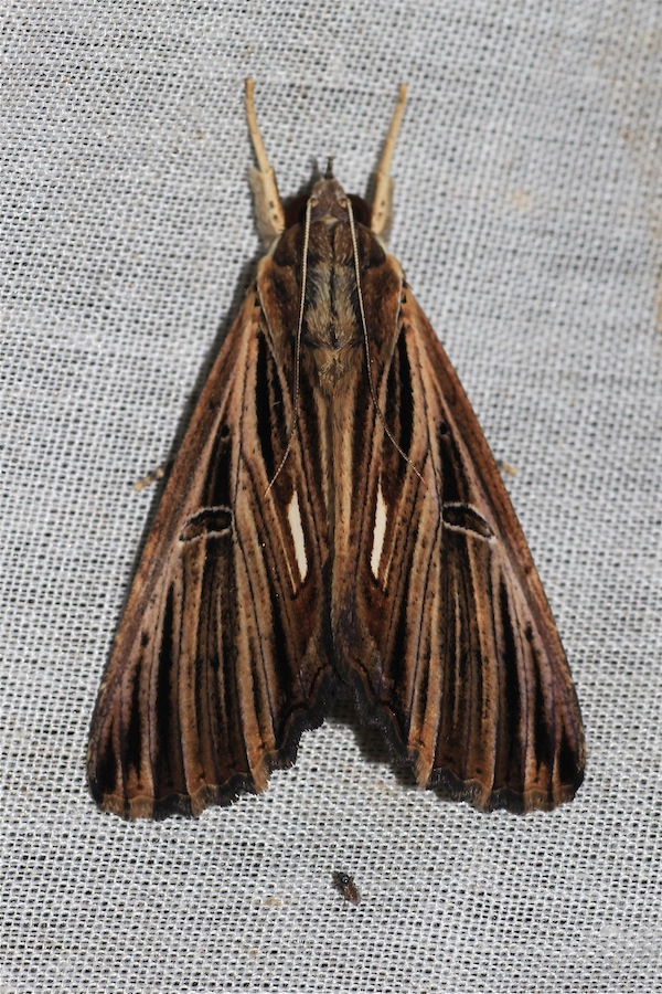 Borneo, Trusmadi area